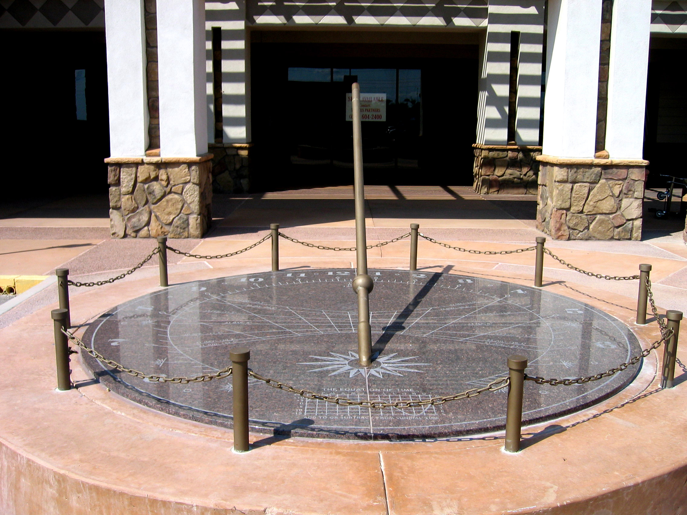 This is a 9 ft diameter granite horizontal sundial located at The Surprise Crossing shopping Center in Surprise Arizona USA. It shows the date and time. It was designed by John Carmichael at Sundial Sculptures